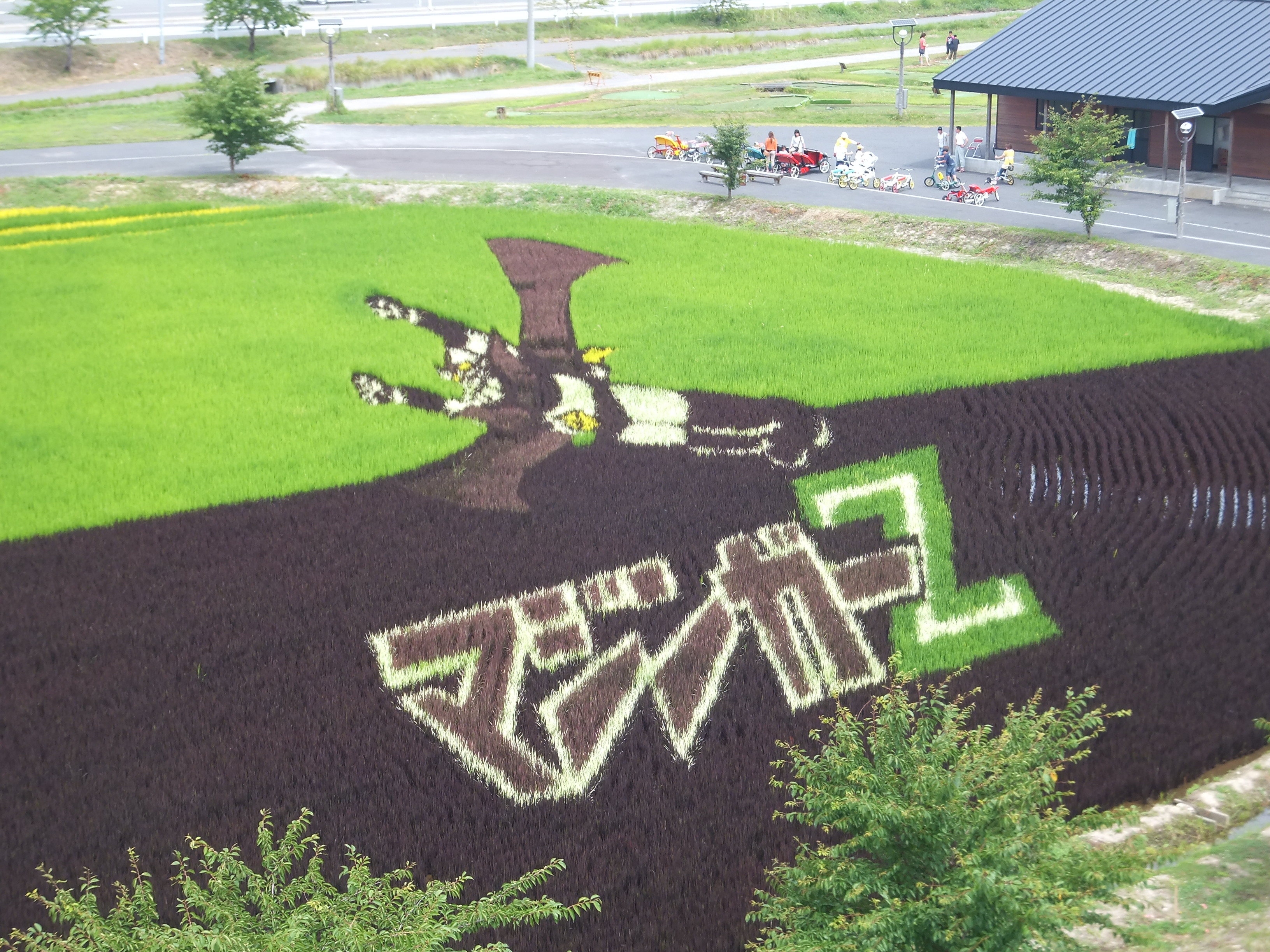 Inakadate service station “Yayoi village”. Tanbo art second venue; 2012 bonus work “Mazinger Z""